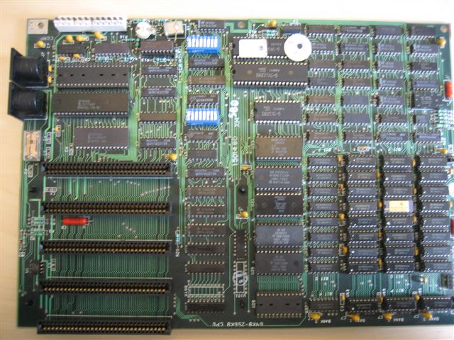 Original IBM Personal Computer motherboard (IBM 5150 with Intel 8088) Note the five expansion slots, the IBM PC XT (5160) has eight.